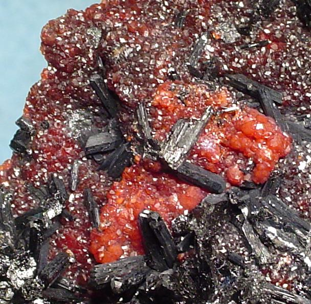 Gaudefroyite, Andradite, Baryte Locality: Wessels Mine (Wessel's Mine), Hotazel, Kalahari manganese fields, Northern Cape Province, South Africa (Locality at ) Size: 9.2 x 6.7 x 5.8 cm. Gaudefroyite is a very rare manganese borate compound. Lustrous, black, hexagonal gaudefroyite prisms to 8 mm are richly strewn on this fine example of the gaudefroyite/andradite/baryte combination specimens. The gemmy, bright to dark cherry-red andradite garnets are a nice compliment, as are the snow-white barytes. The best gaudefroyites in the world come from the Kalahari Manganese Field and this is a highly representative and fine example of the combination species. Ex. Wes Parker Collection.